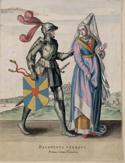 Baldwin I, depicted in 'Flandria Illustrata' by Antonius Sanderus - 1641